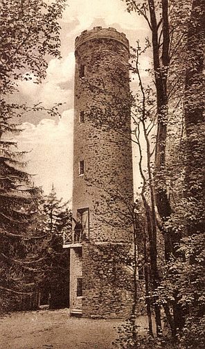 Kaiser-Wilhelm-II-Tower at Sackpfeife hill close to Biedenkopf, Germany. Postcard was written 1932. Therefore the photo is of 1932 or earlier.